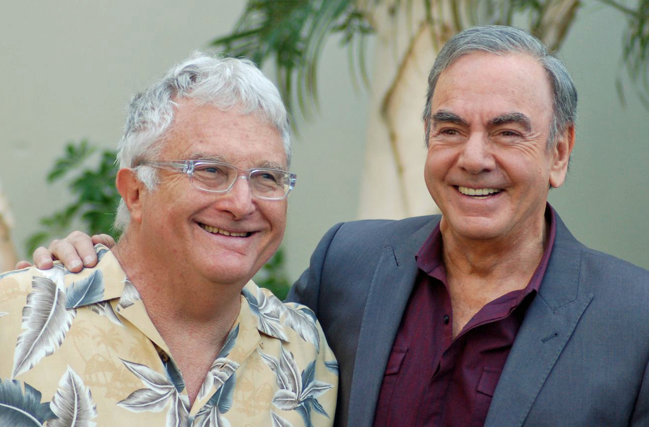 Randy Newman (left) and Neil Diamond (right) at a ceremony for Diamond to receive a star on the Hollywood Walk of Fame.